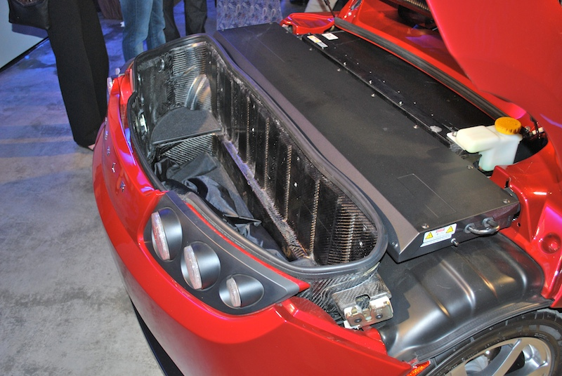 Tesla Roadster under the hood